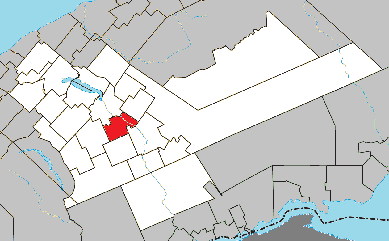 Location of Lac-au-Saumon, Quebec within La Matapédia Regional County Municipality.